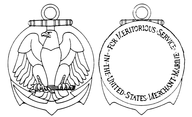 Line drawing of the Merchant Marine Meritorious Service Medal as featured on the Department of Defense specification sheet